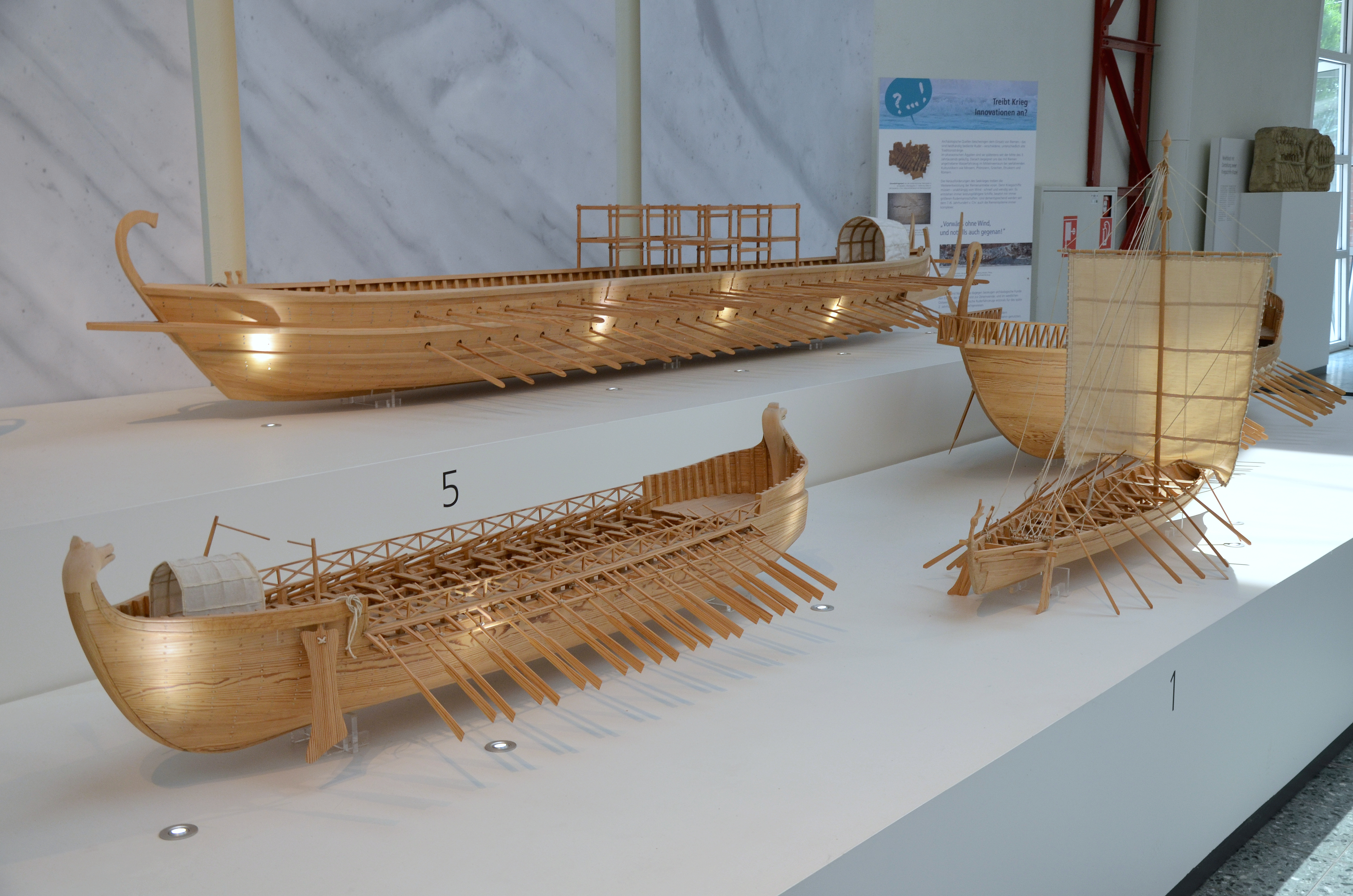 1:10 model reconstructions of Roman ships, 5: Dromon of the Byzantine navy (10-12th centuries AD), left: Bireme of the Neumagen Type (220 / 230 AD), Museum für Antike Schiffahrt, Mainz